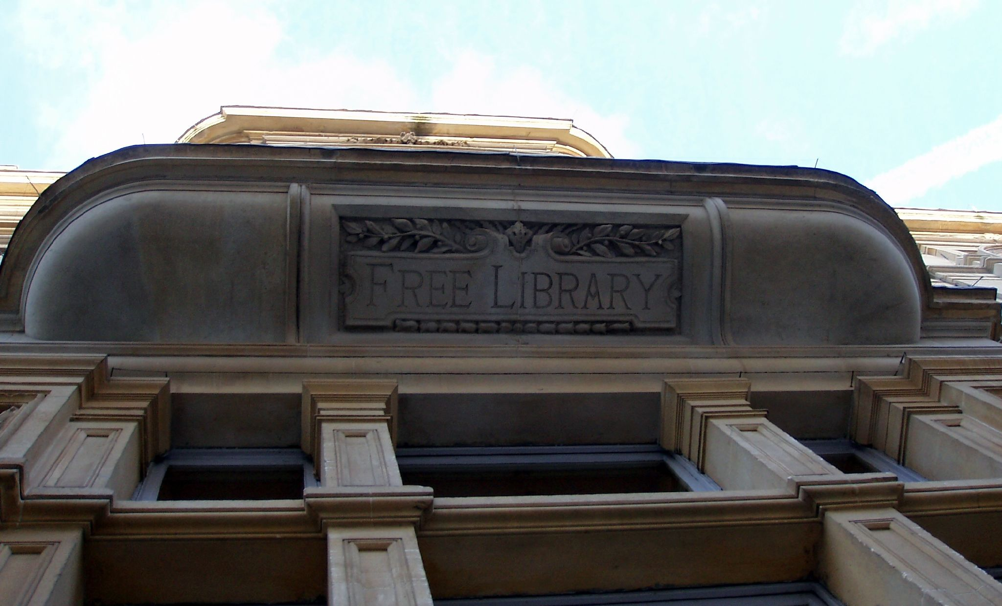 Detail - The Old Library (Free_Library)